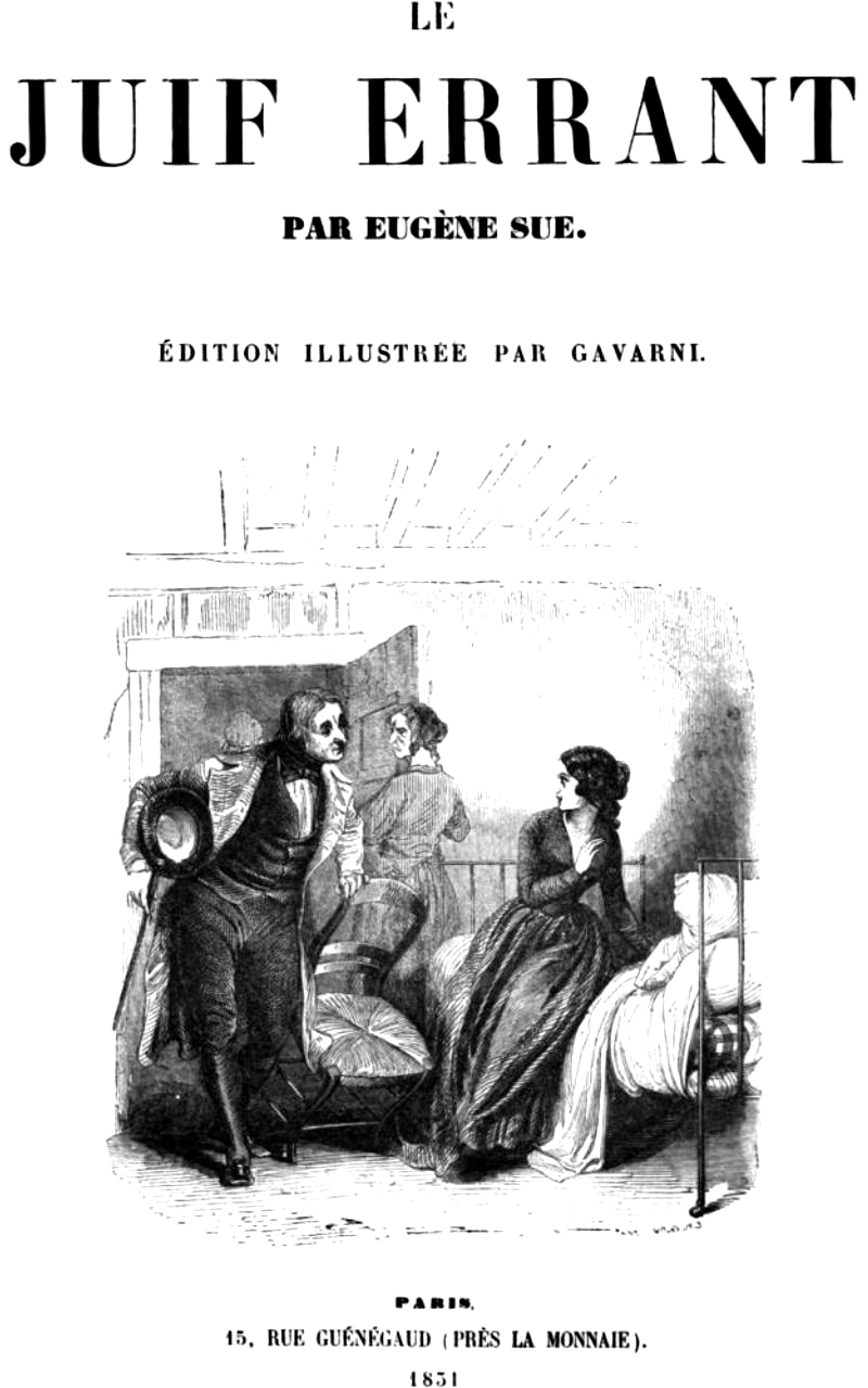 Front page of The Wandering Jew (1844) by Eugène Sue (1804-1857)